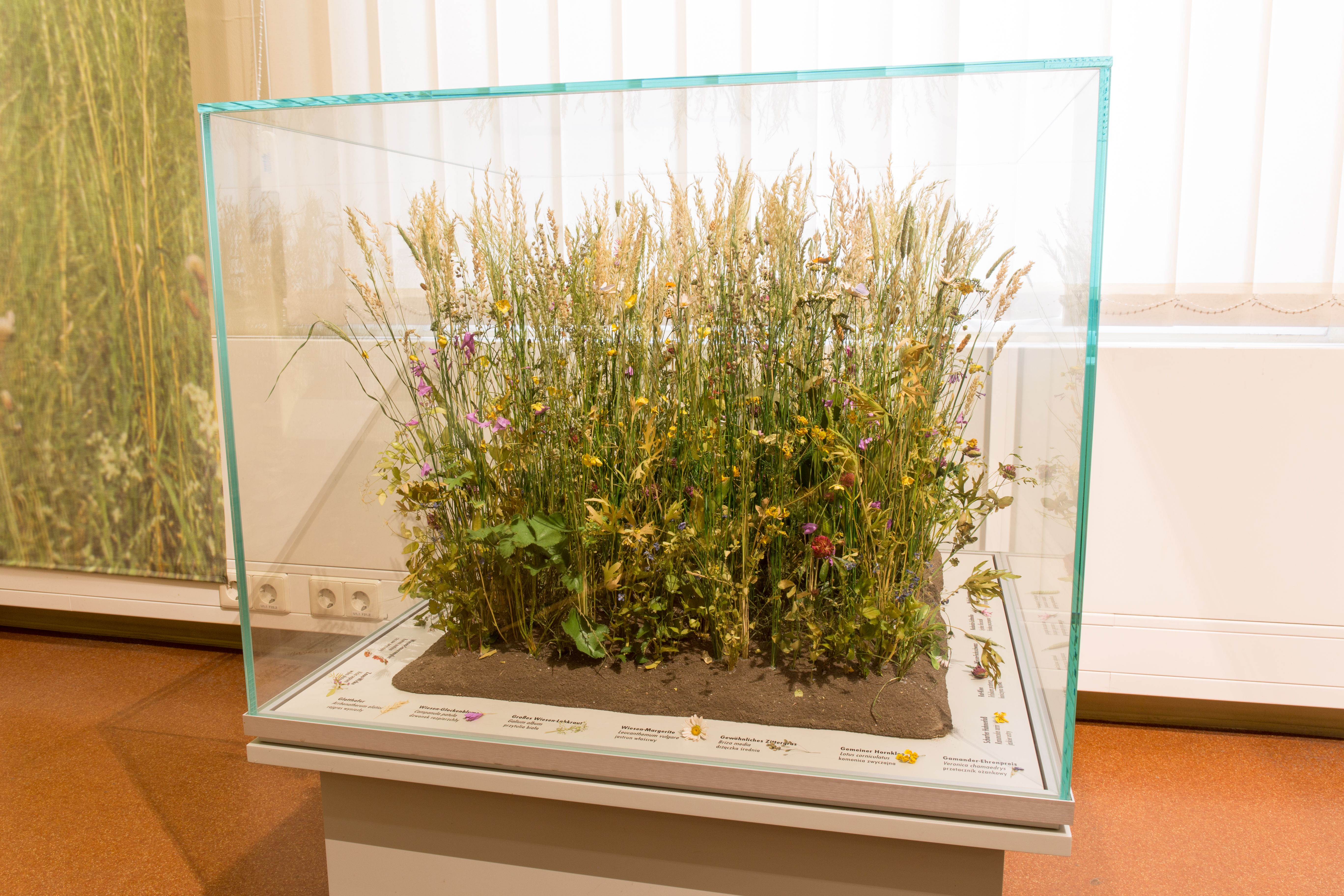 The preparation time of this more inconspicuous looking piece of meadows was roughly two years.